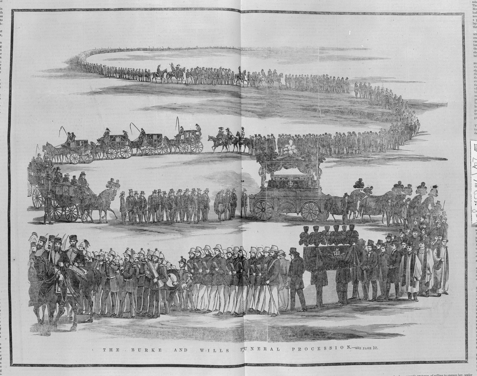 Wood engraving published in The illustrated Melbourne post. (State Library Victoria)